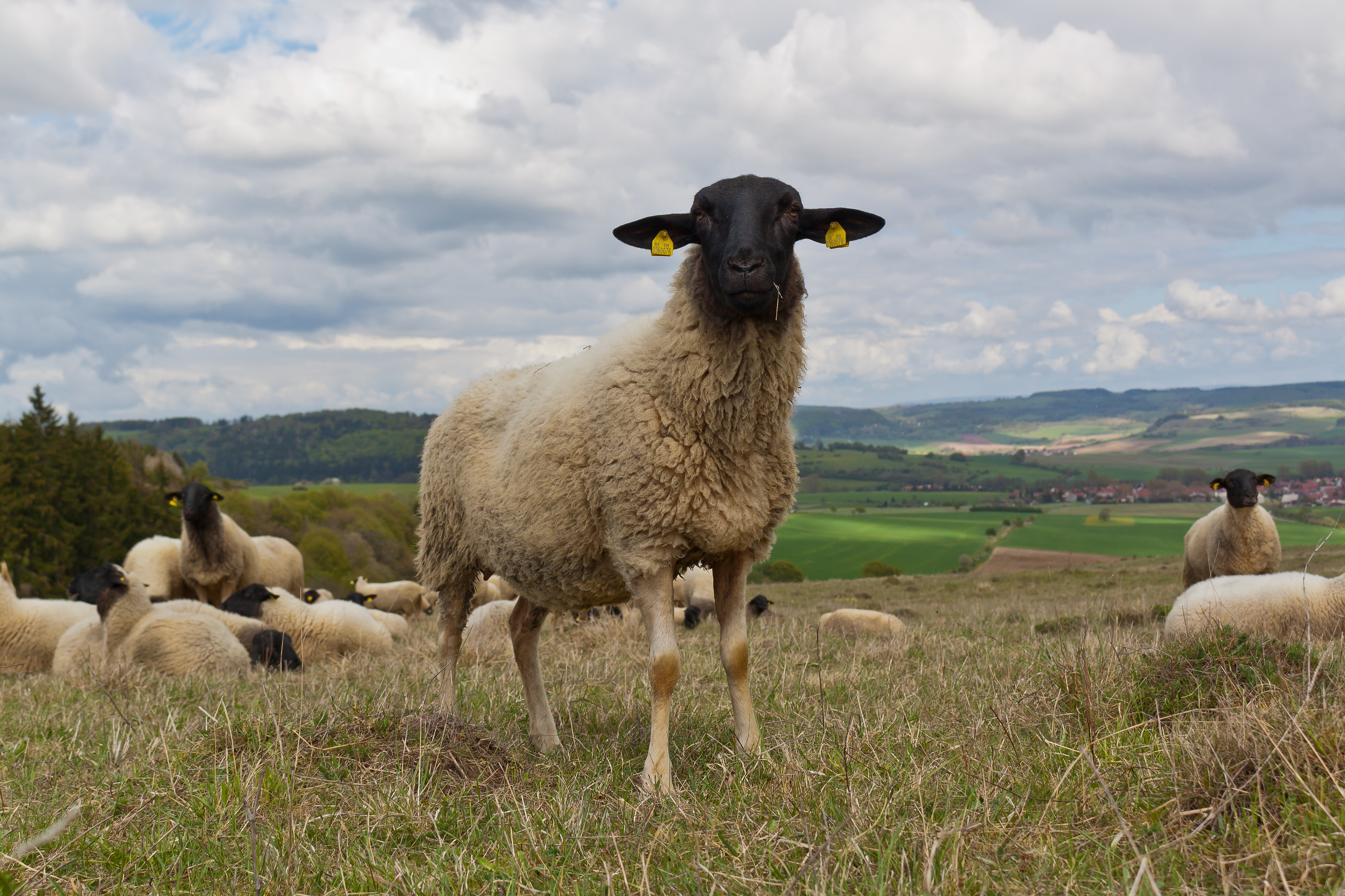 A specimen of a Rhönschaf, an old sheep breed of the Rhoen mountains. This picture was taken in the Rhön Biosphere Reserve, on the Weidberg nearby Kaltenwestheim. A overhead powerline was digitally removed. See small second version below.